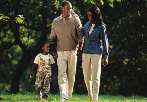 African American Family 20th or 21st century.